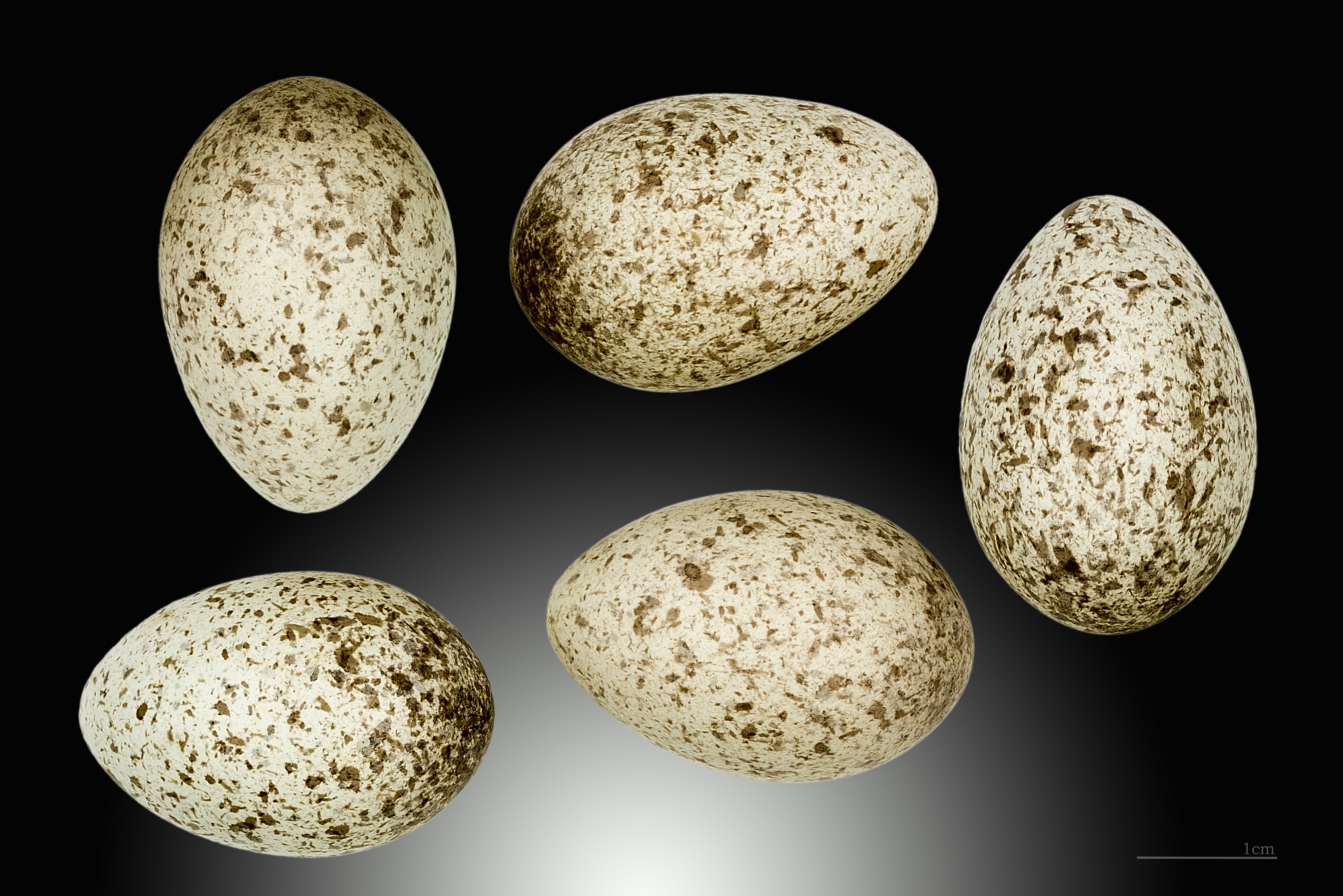 Egg of House Sparrow. Collection of Jacques Perrin de Brichambaut.